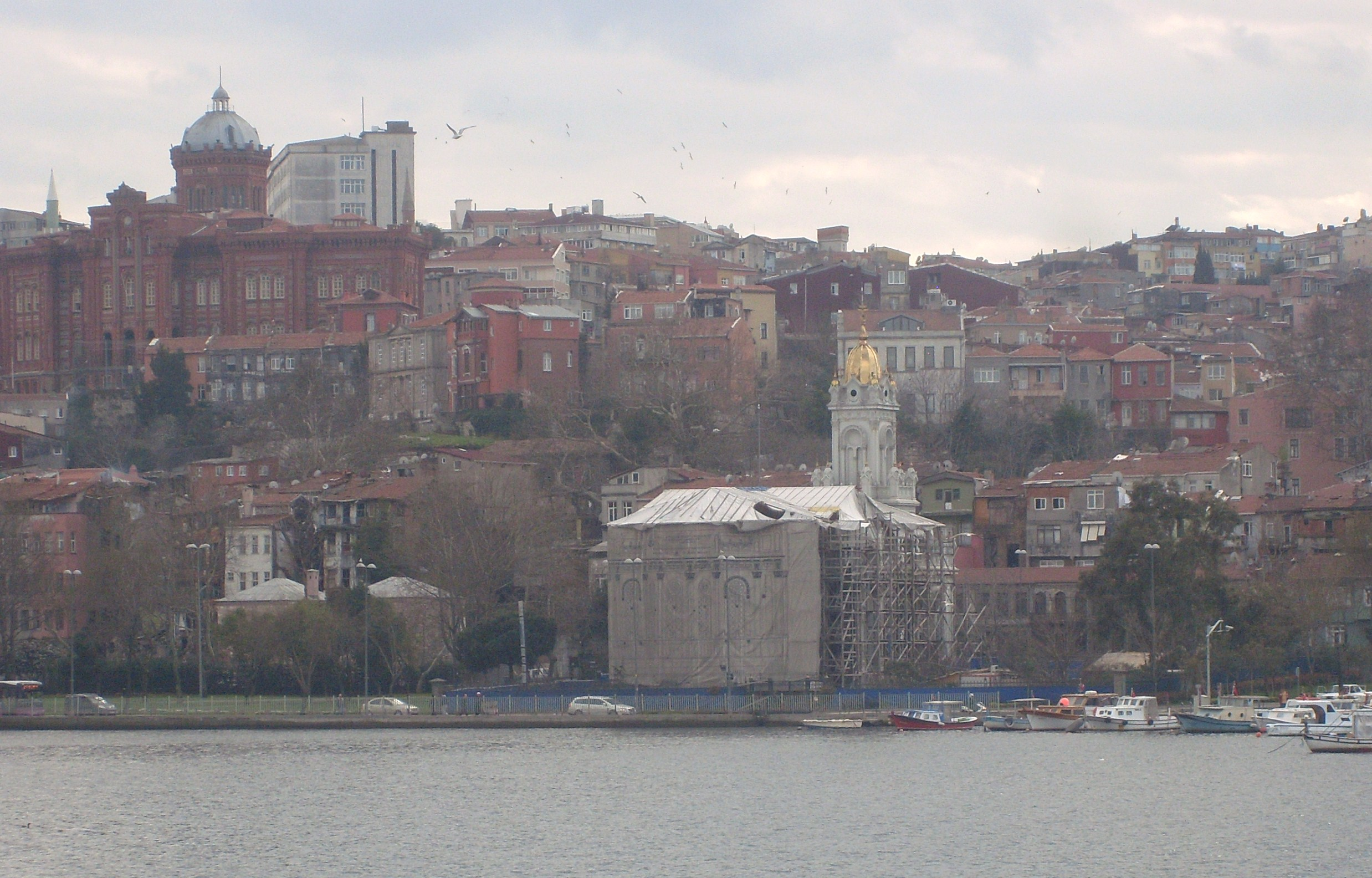 İstanbul - Bulgarian St. Stephen Church - Mart 2013